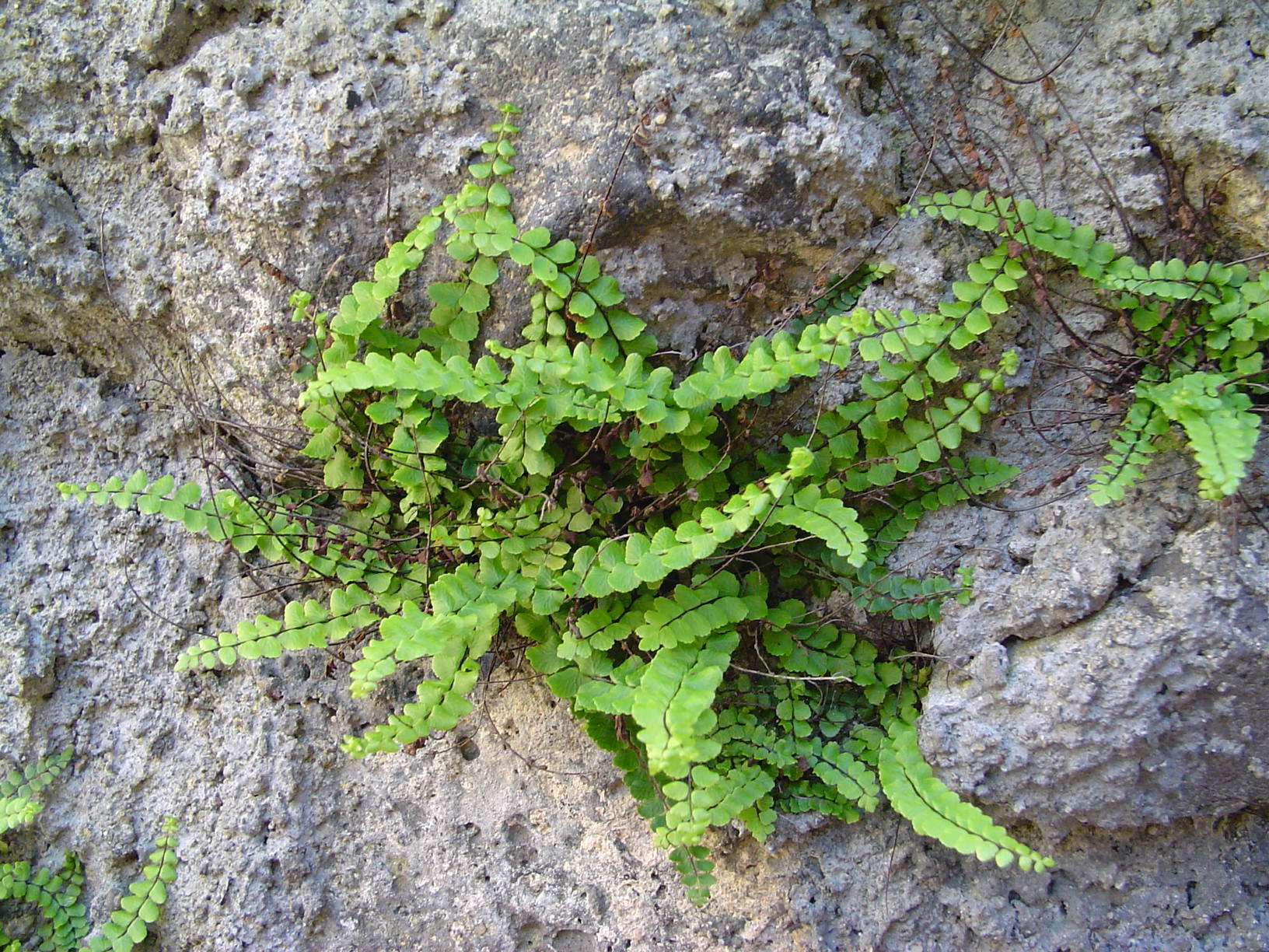 Asplenium trichomanes on a rock, in a small village in Auvergne, France